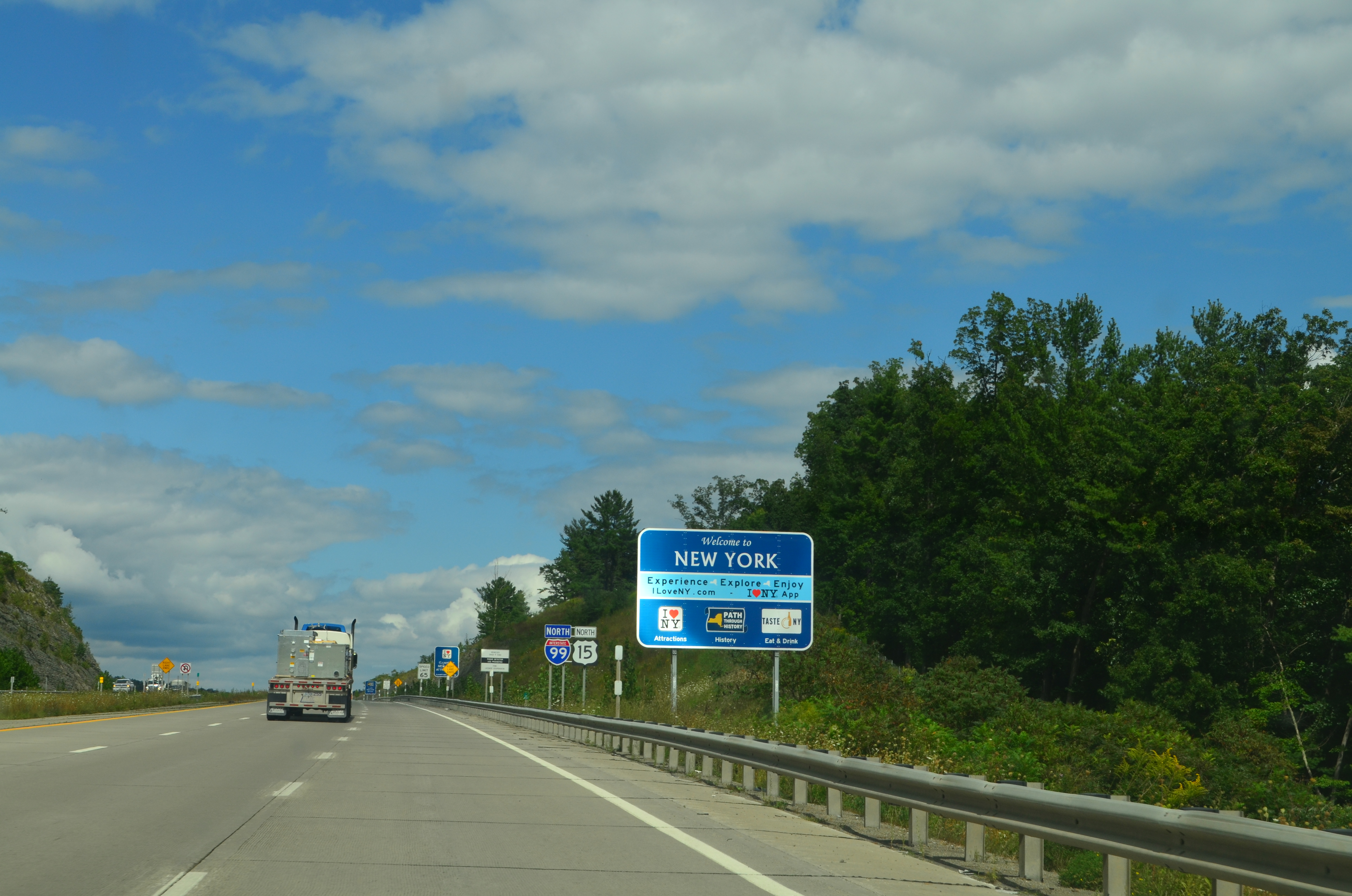 Interstate 99 in New York at welcome sign.